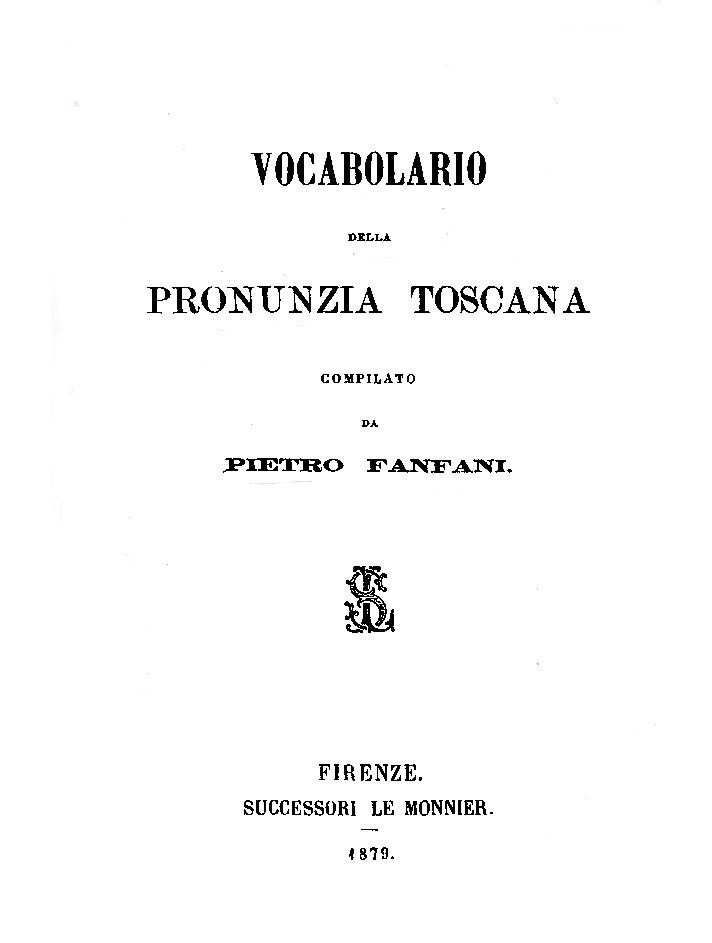 front page